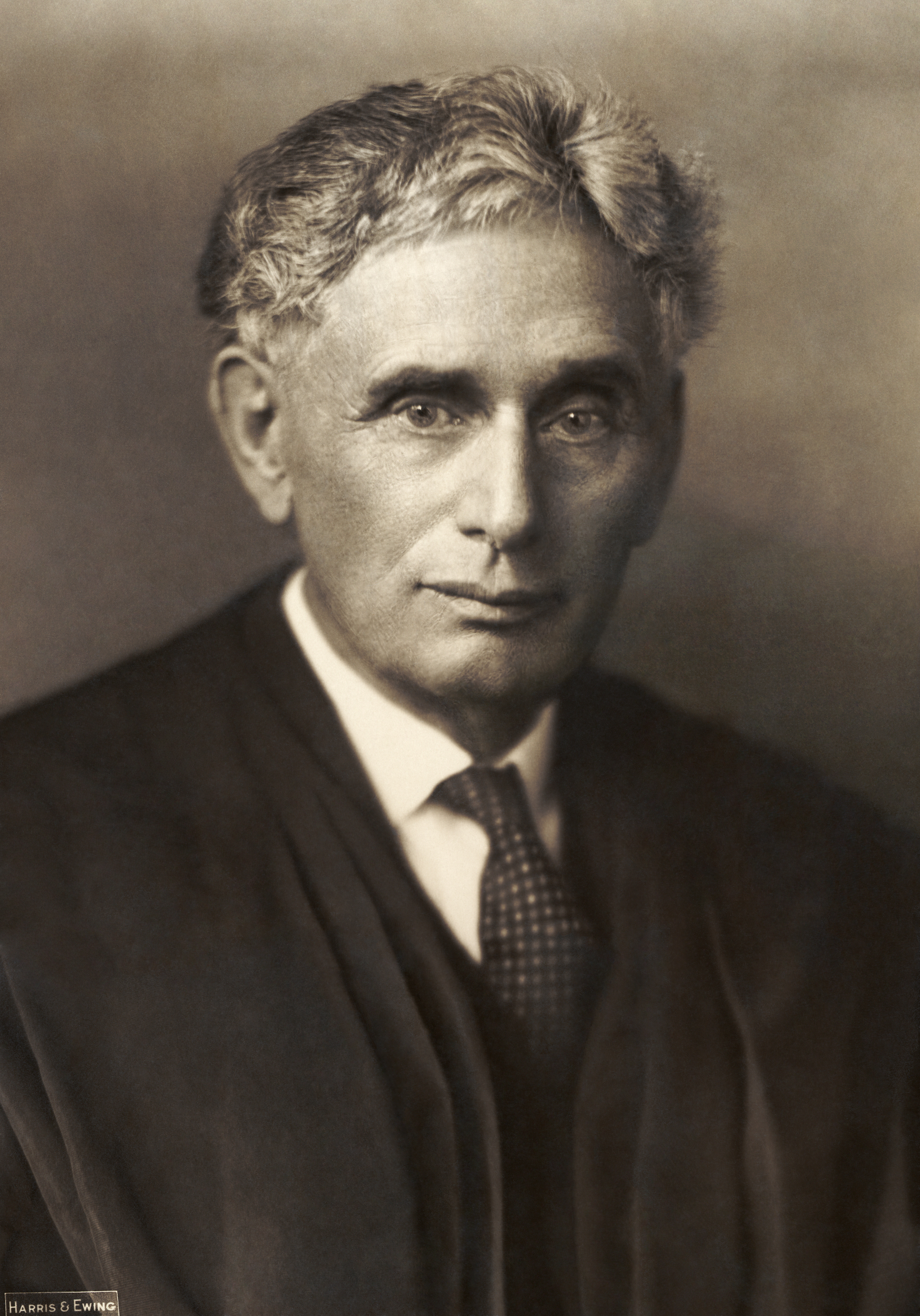 Louis Brandeis